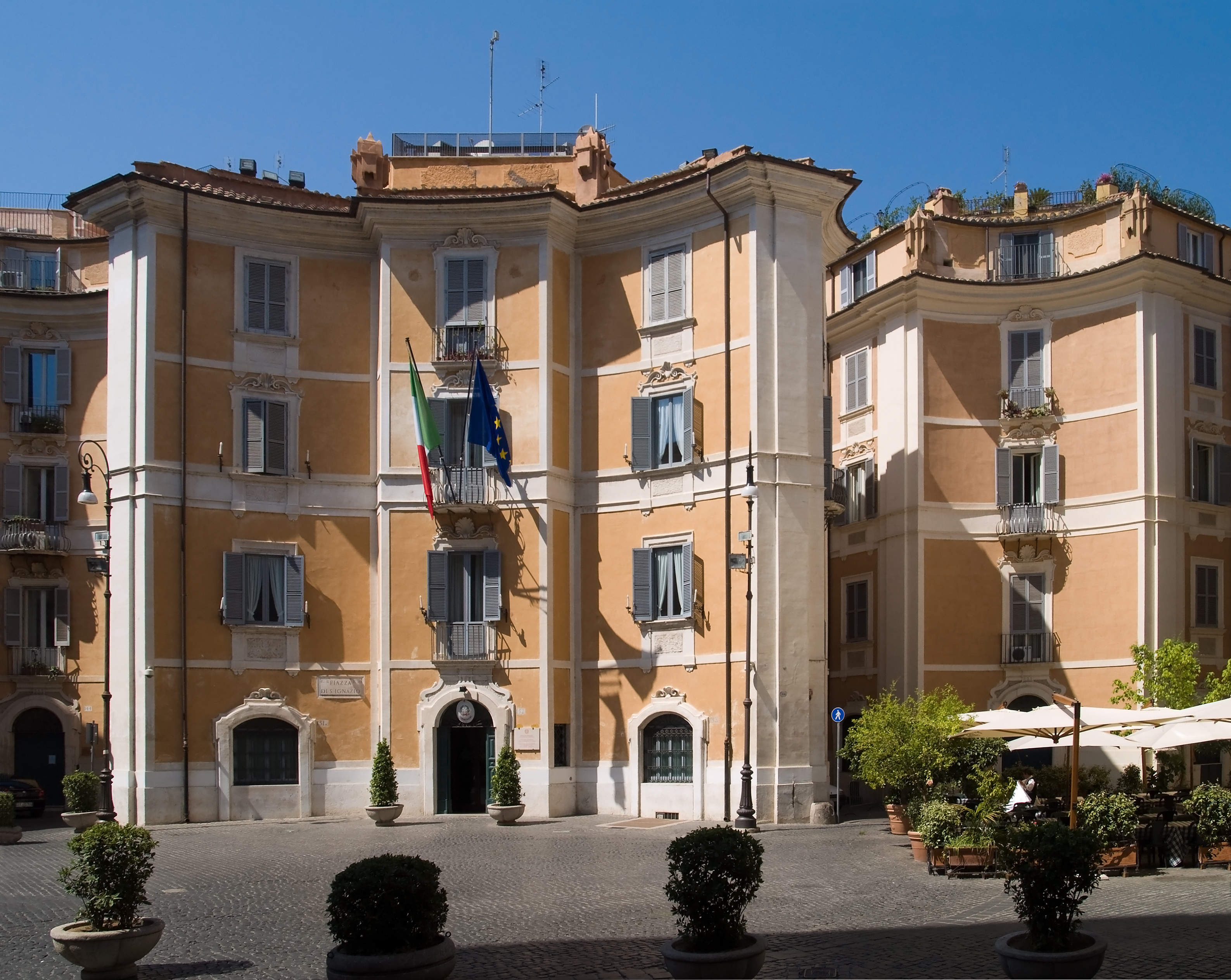 Piazza sant'Ignazio (Saint Ignatius' square) in Rome, work of the architect Filippo Raguzzini who designed it in 1727-1728.